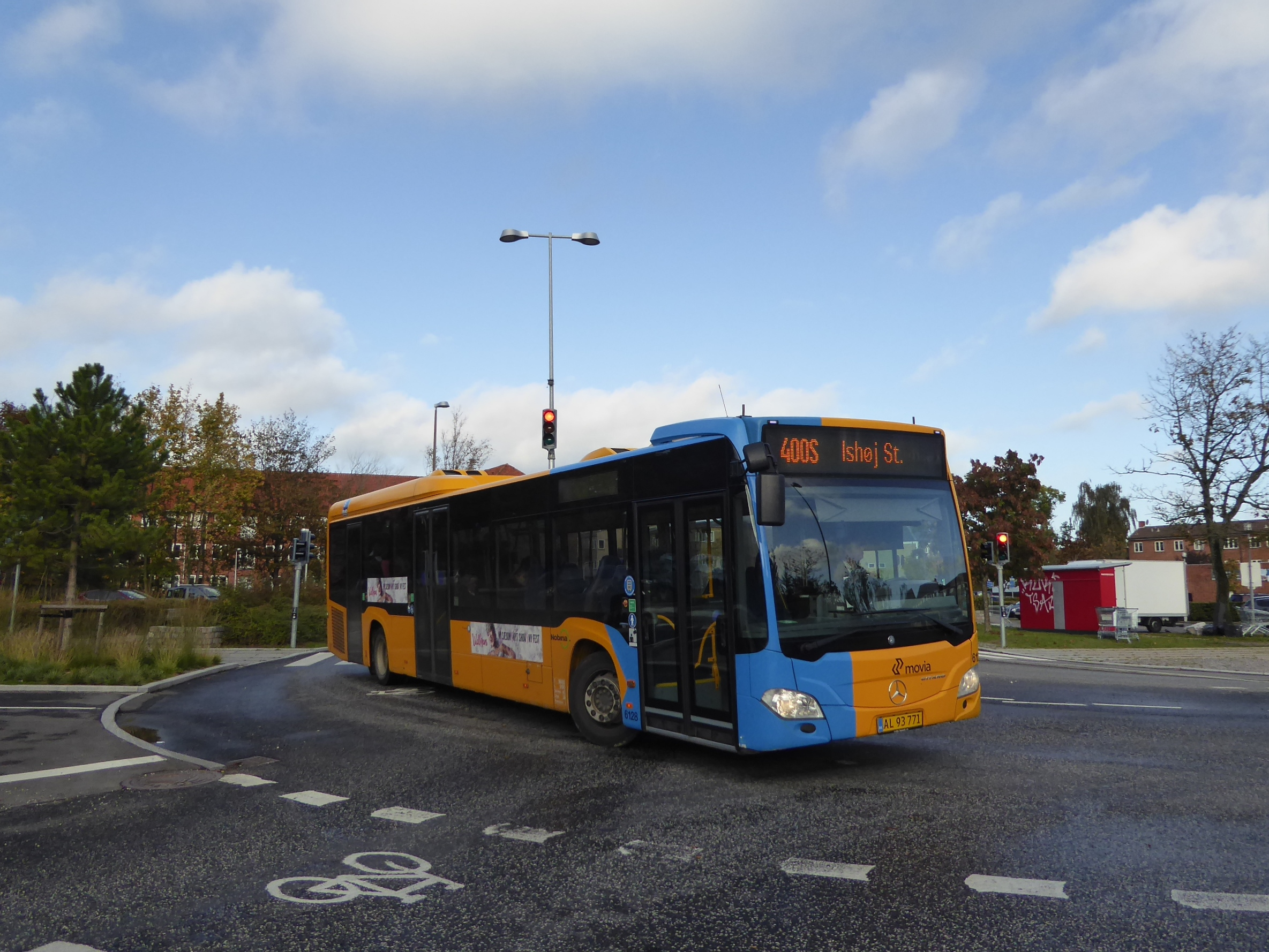 Movia bus line 400S on Bydammen at Ballerup Station in Copenhagen.